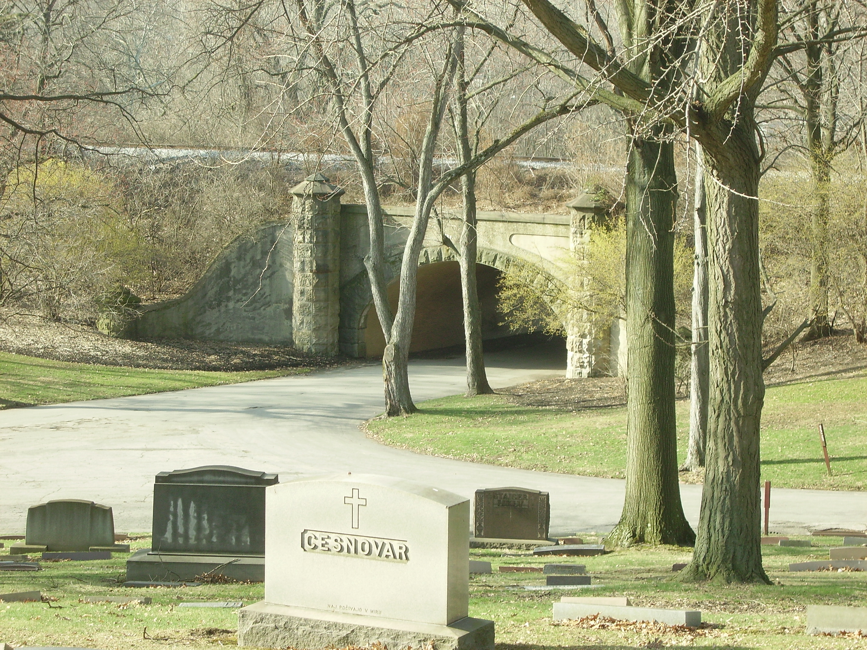 Tunnel under the railroad tracks, Calvary Cemetery, Cleveland, OH. View direction southwest.